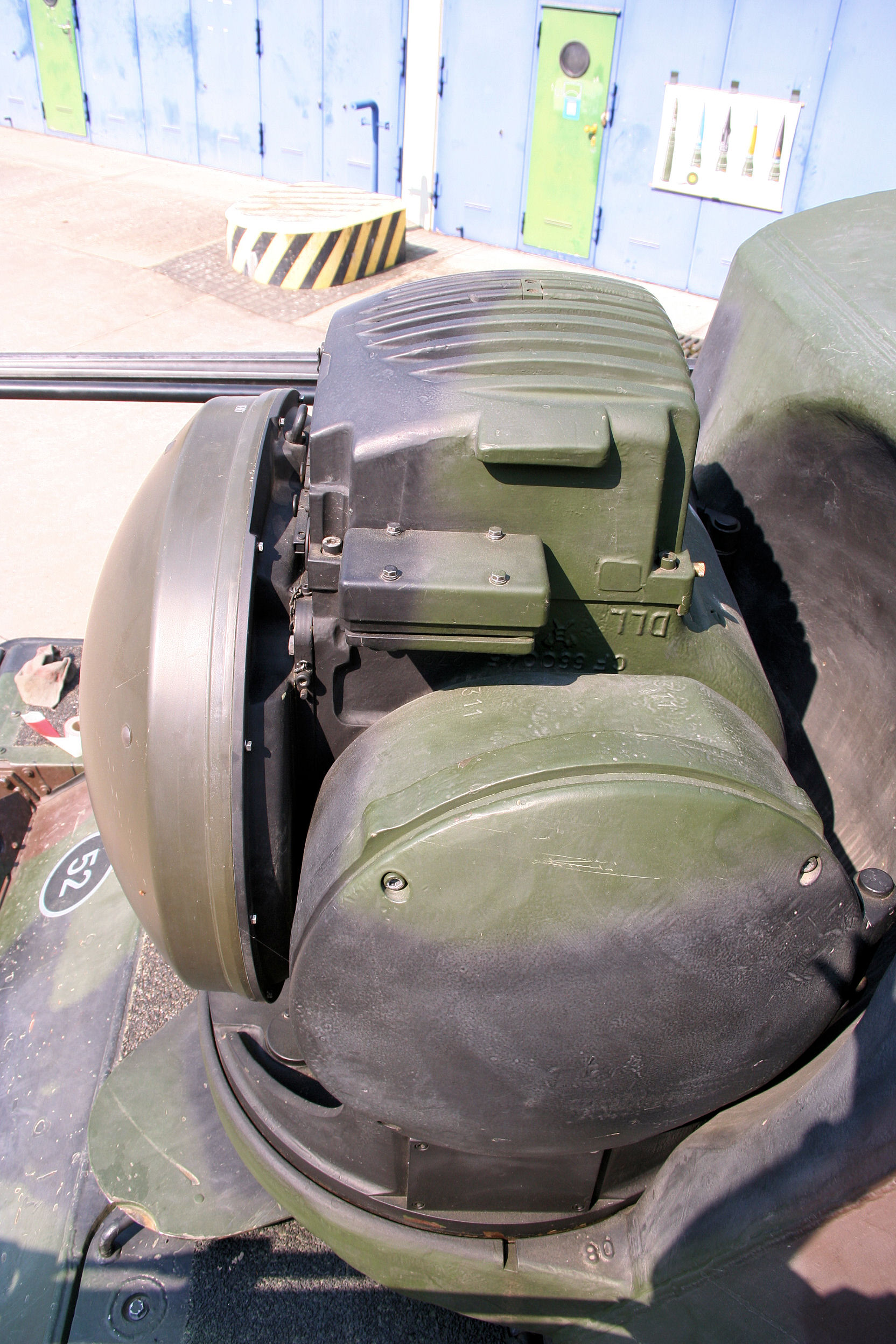 Gepard 1A2 Folgeradar+Laser, Gepard 1A2 tracking radar + laser